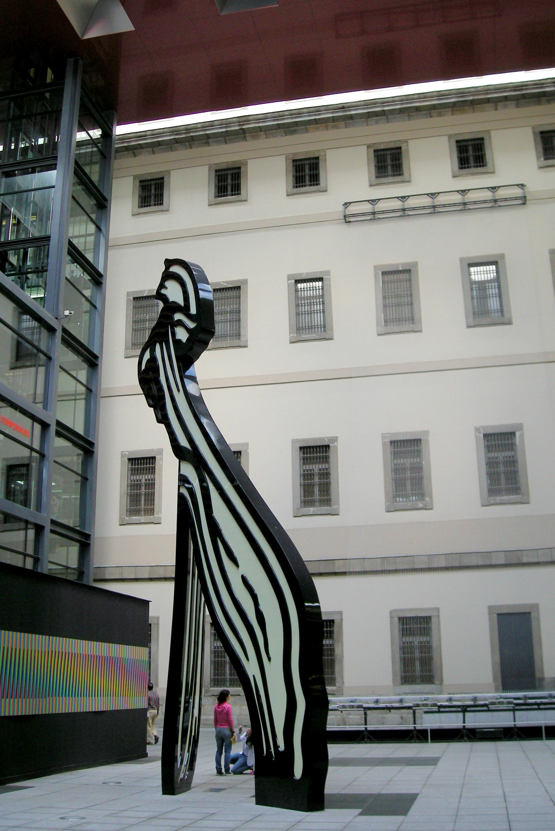 Sculpture by Roy Lichtenstein, 1996 entitled "Brushstroke" in Patio Reina Sofía Madrid/Spain